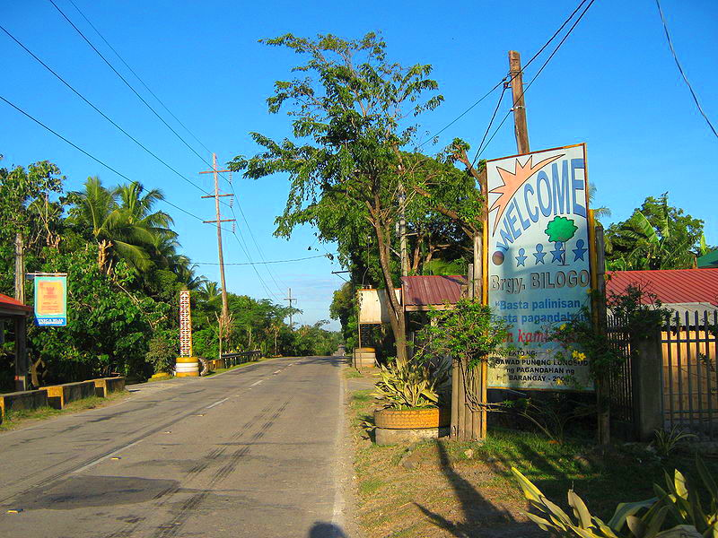 This image depicts the entrance of Zone 7, Brgy. Bilogo from Brgy. San Jose Sico, Batangas City, Philippines. Tagalog: Ipinapakita ng larawang ito ang pasukan ng Purok 7, Brgy. Bilogo mula sa Brgy. San Jose Sico, Lungsod ng Batangas, Pilipinas.